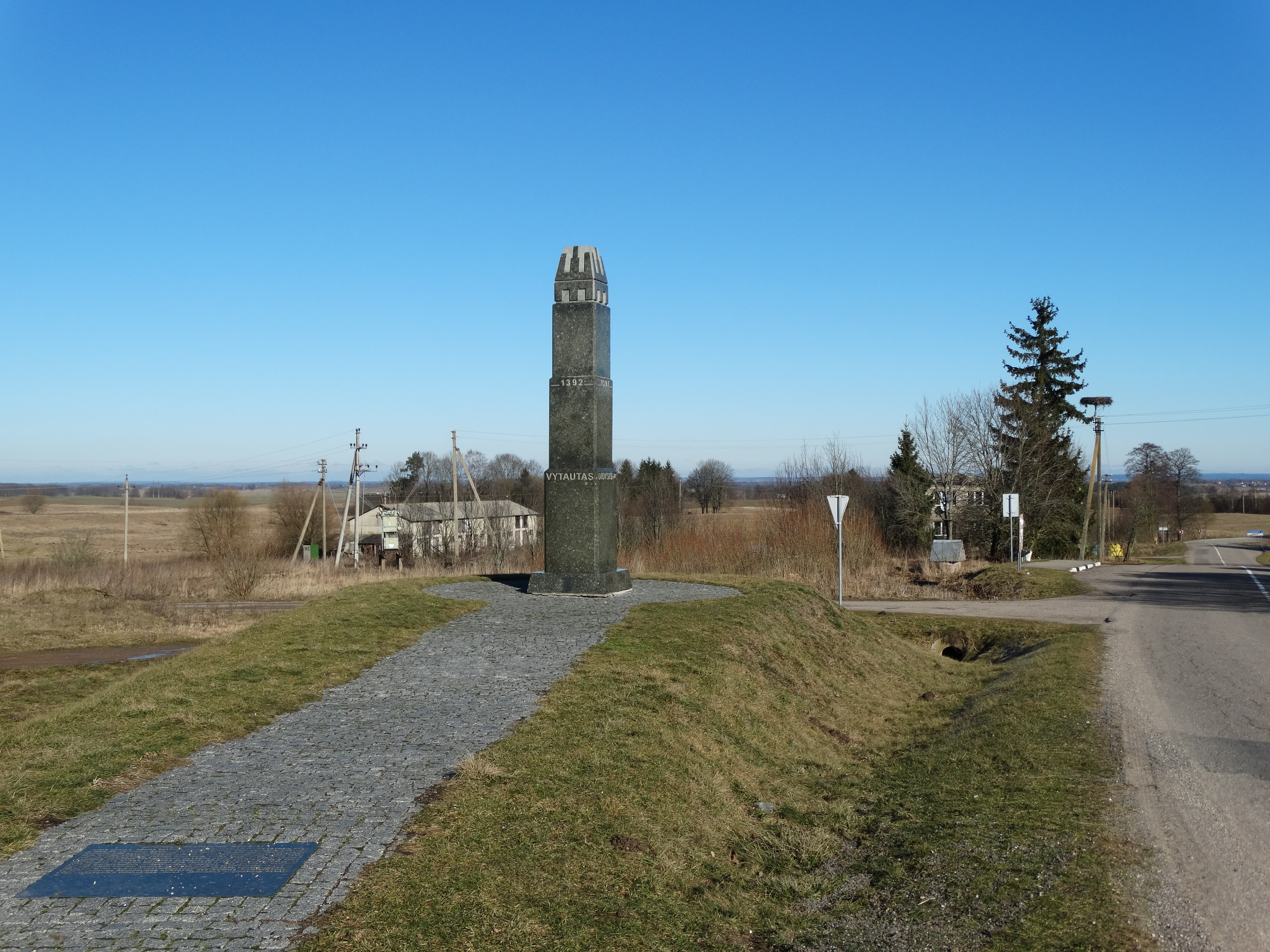 Raižiai, Alytus district, Lithuania